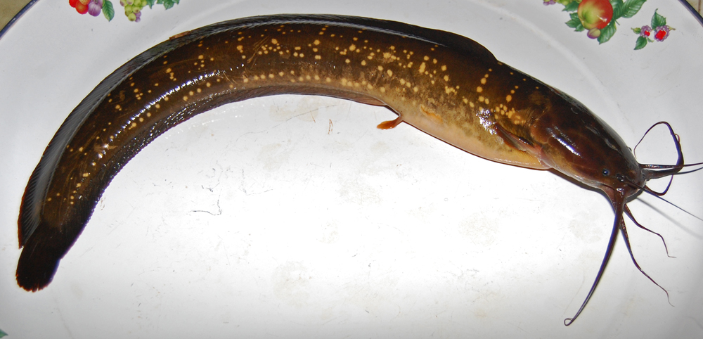 Clarias nieuhofii from Mentaya Hulu, Central Kalimantan, Indonesia. TL ca. 430 mm.